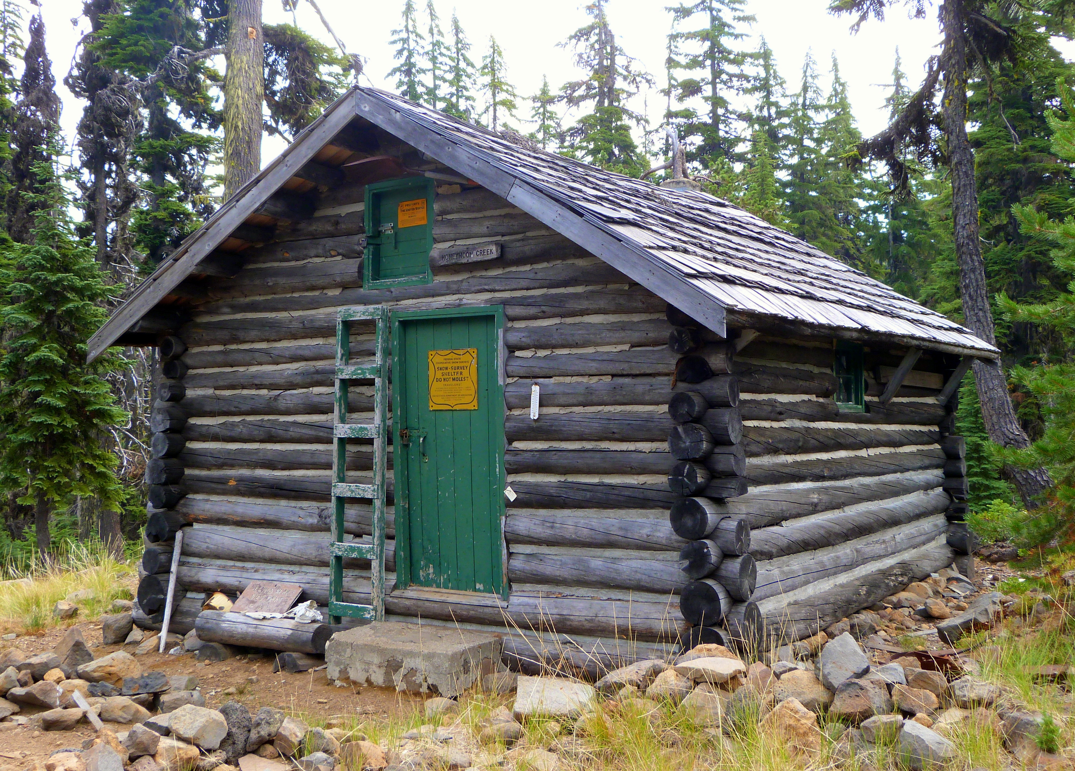 The historic Honeymoon Creek Snow-Survey Cabin (built 1943), located in the Sky Lakes Wilderness, Winema National Forest, Oregon, United States, is listed on the U.S. National Register of Historic Places.